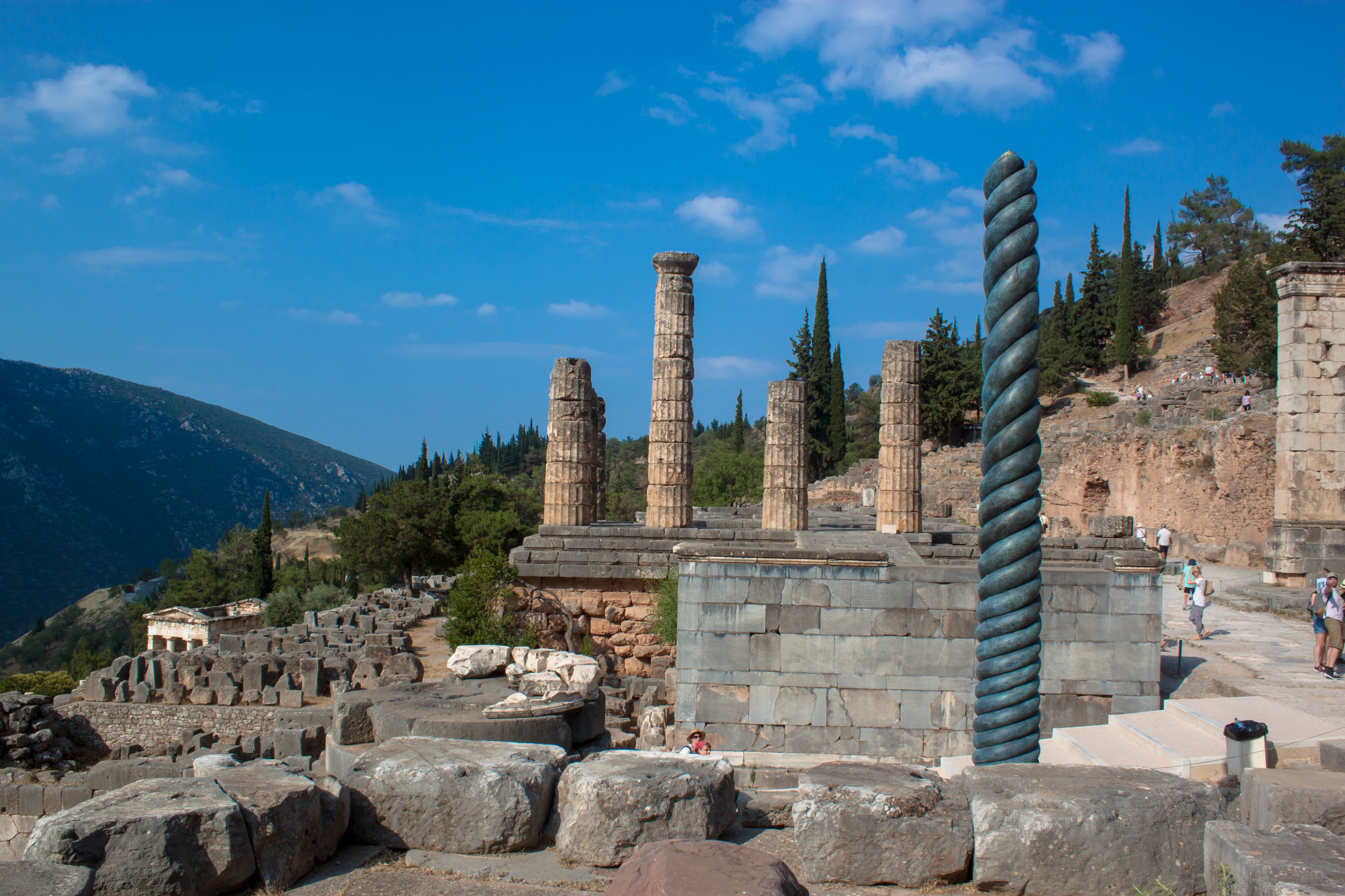 Bronze replica of the Serpent Column (part of the Delphi Tripod) erected in Delphi in 2015, and Temple of Apollo. The original Serpent Column stand in Istanbul.